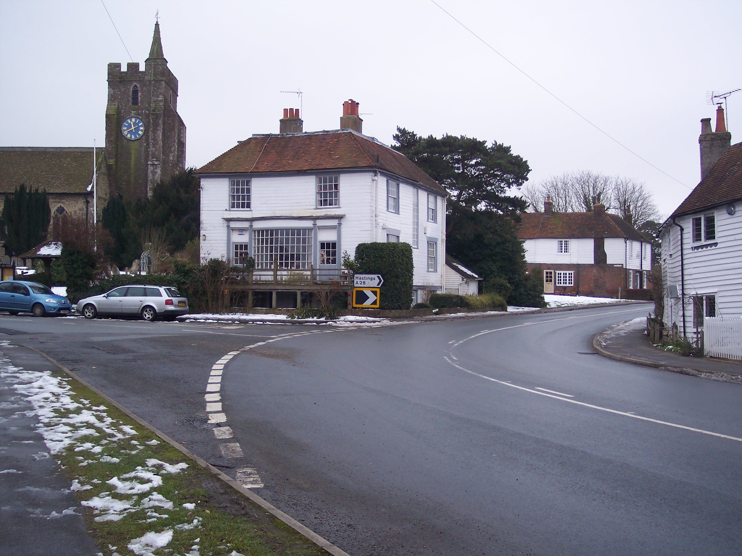 Road junction in Rolvenden The A28 High Street becomes Hastings Road and heads right and heads to Newenden. High Street also heads left towards Maytham Road and Pix's Lane. In the background is St Mary's Church and Church House.